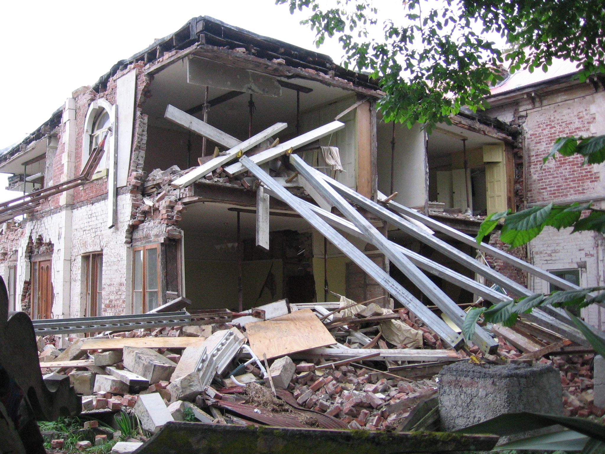 Bracing installed at Linwood House after the September 2010 earthquake did not stop the walls from collapsing in the 22 February 2011 earthquake.